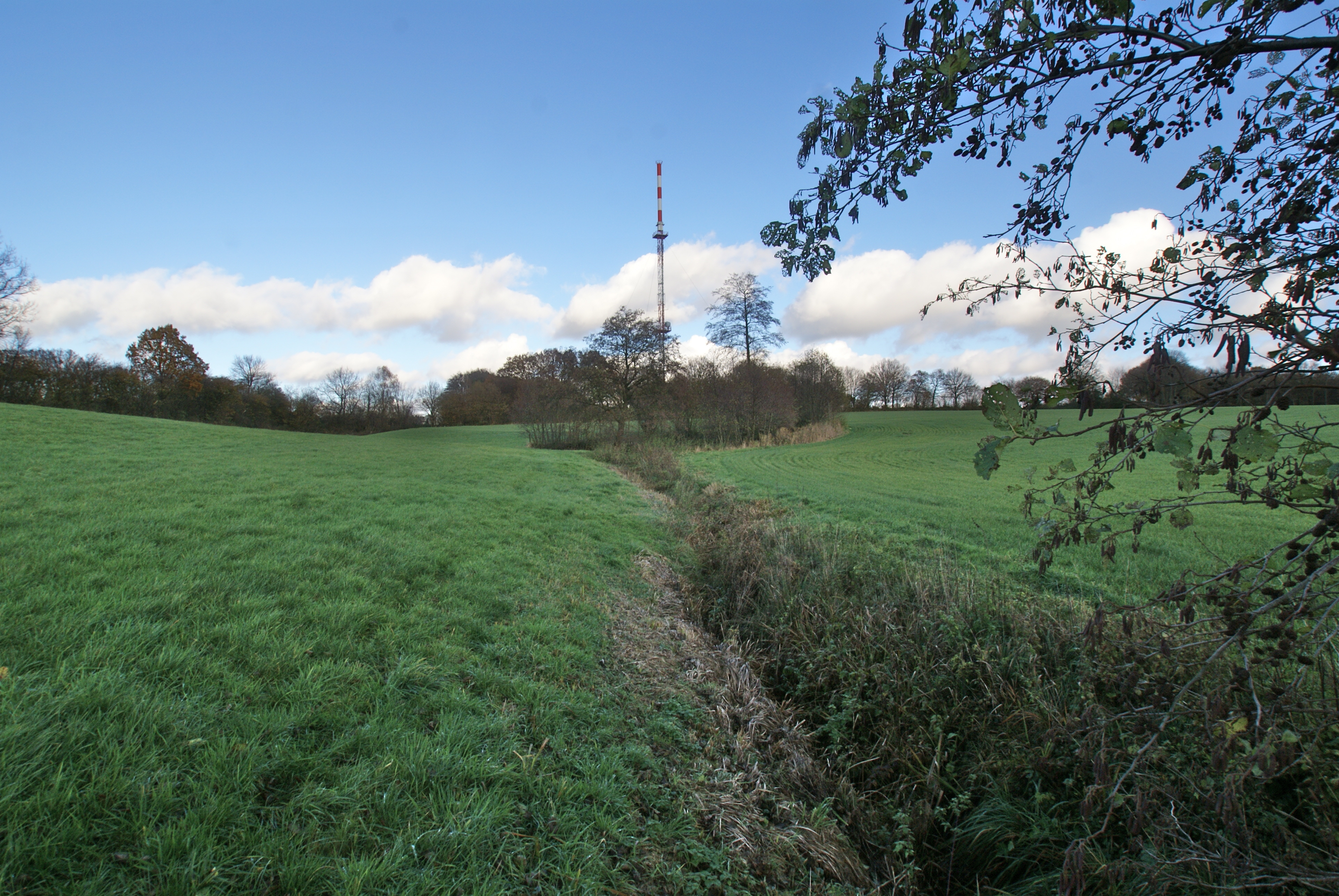 Kisdorf, Germany: The riverWischbek close to its spring